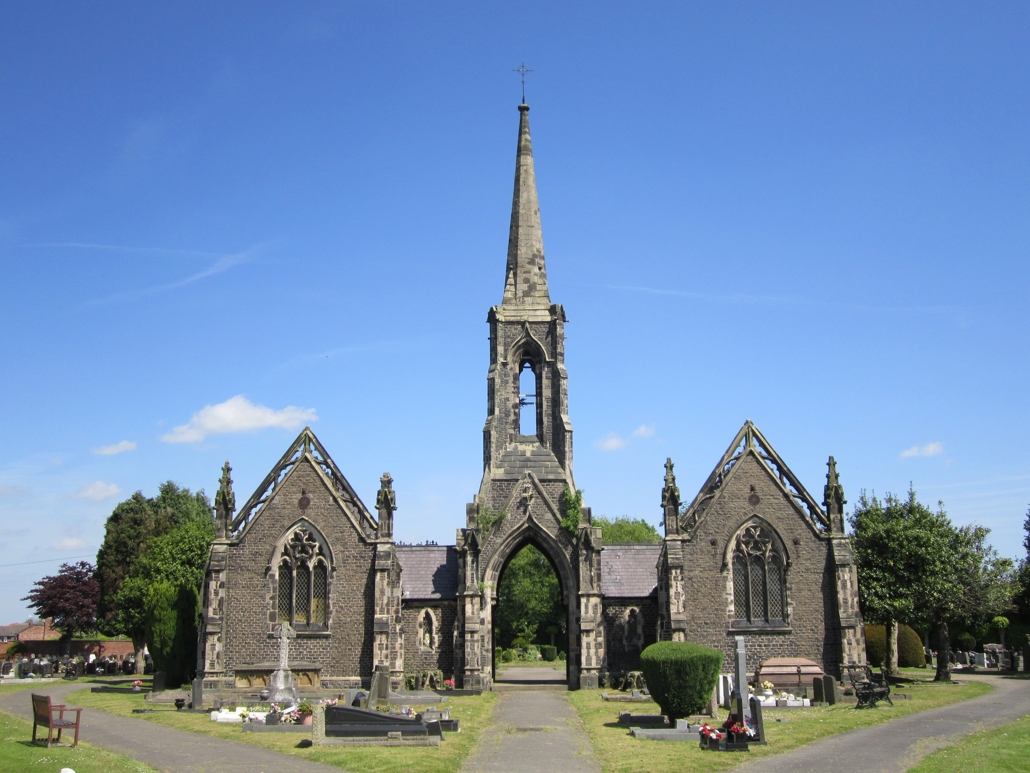 Middlewich Cemetery Chapel, Cheshire, England.